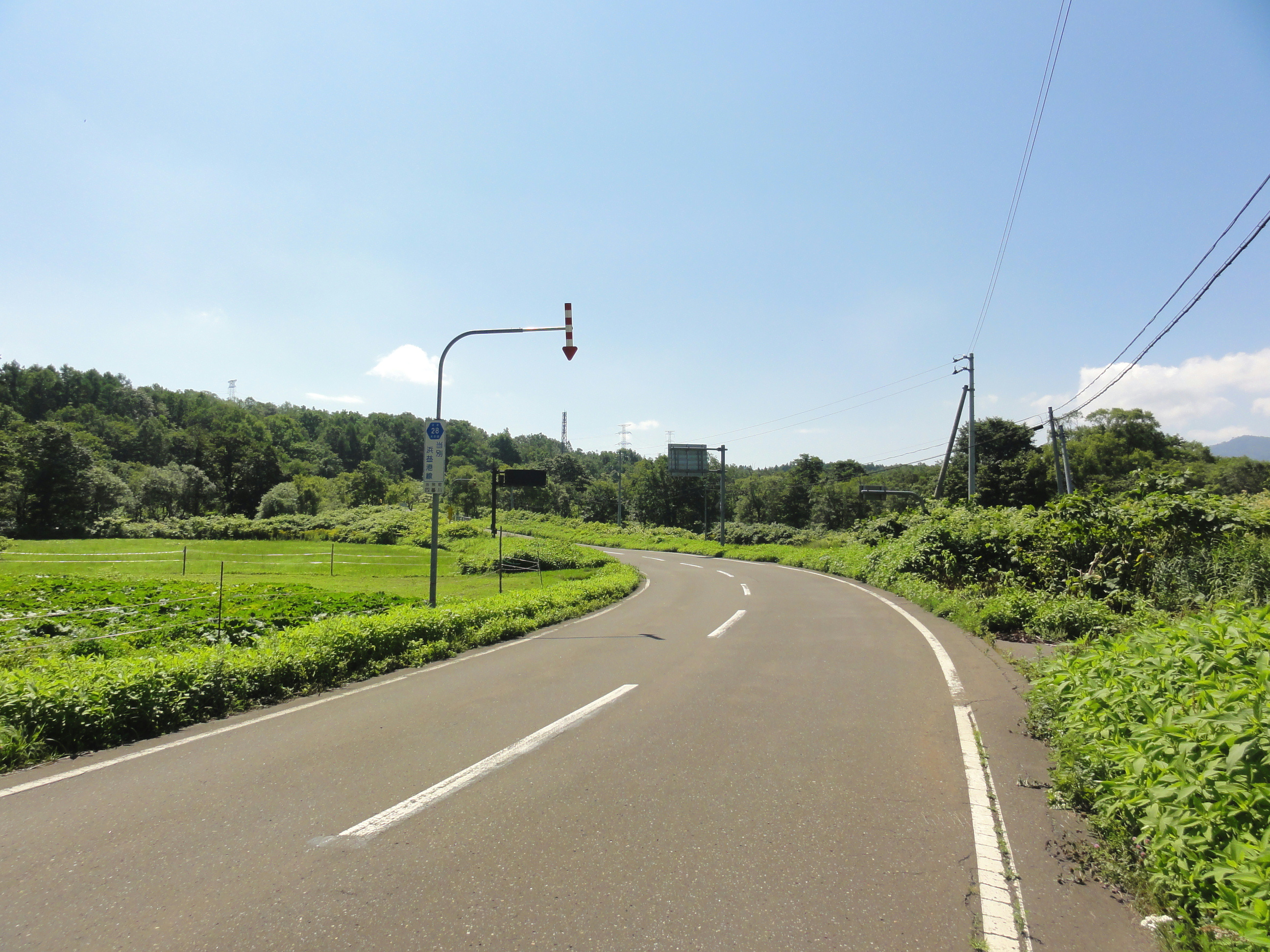 Hokkaido Pref Route 28 (Tōbetsu, Hokkaidō)